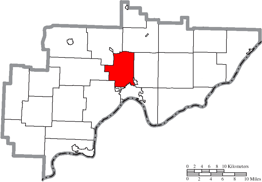 Map of the municipal and township boundaries of Washington County, Ohio, United States, as of the 2000 census, with the location of Muskingum Township highlighted. Township borders are shown only in unincorporated areas in order to differentiate incorporated and unincorporated areas more clearly.